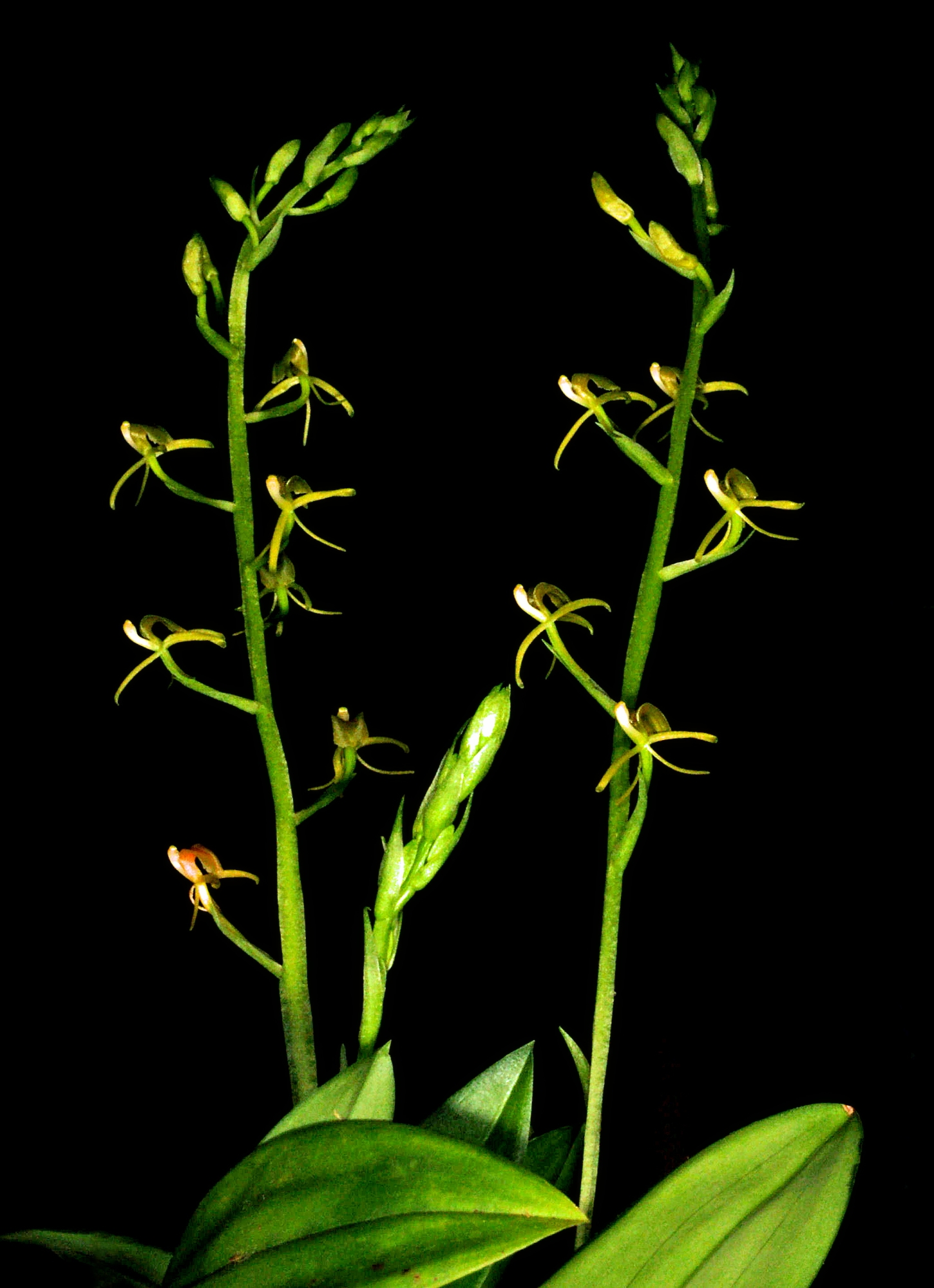 Liparis bootanensis